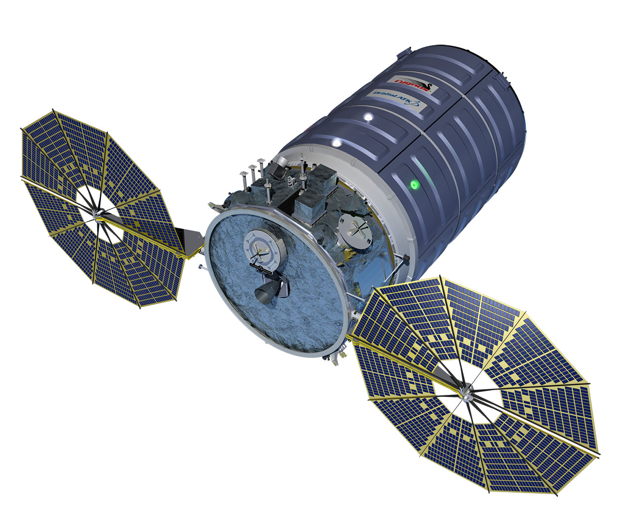 Computer drawing of the Enhanced Cygnus